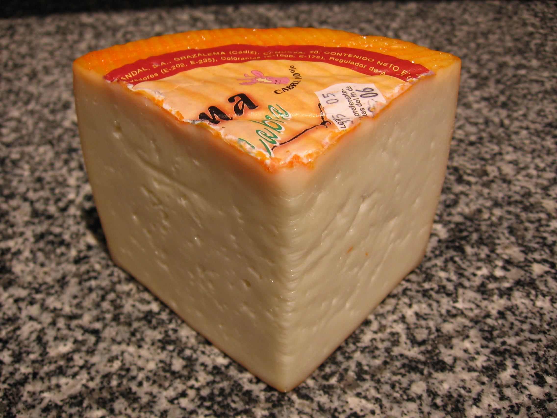 Goat cheese from the Grazalema mountains, Cádiz, Spain